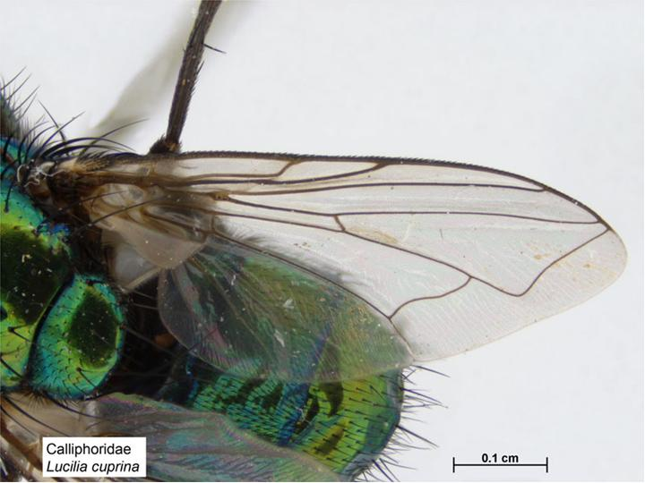 Lucilia cuprina, Wing - Adult : Diagnostic Notes : Abdomen integument metallic green. Fore femur metallic green. Thoracic squama bare. Wings hyaline; stem vien bare; basicosta yellow; subcostal sclerite pubescent. Suprasquamal ridge with posterior parasquamal tuft. Supraspiracular convexity pubescent. Postocular microtrichial pile (minute hairs) on vertex directed transversely, smooth, with a sharp boundary where pile changes direction. Humerus with 2-4 hairs. Quadrant between anterior margin and discal setae with 15-25 setulae. Male : Hairs on abdominal sternites much longer than on hind femur and tibia.